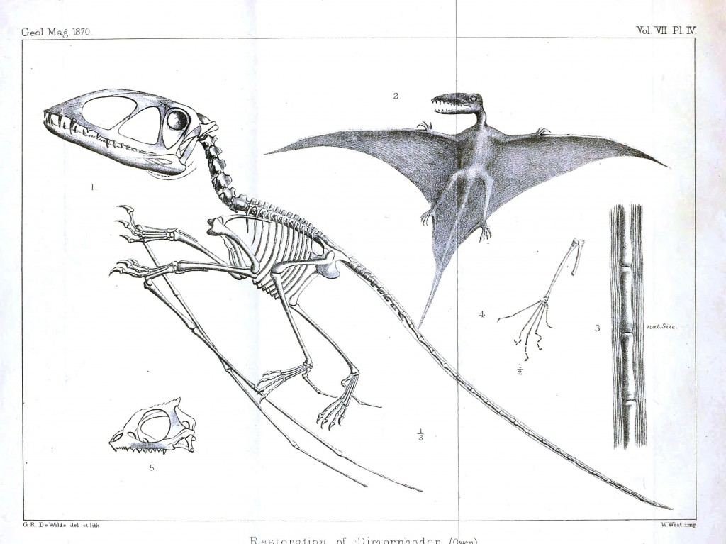 Pterodactyl (Dimorphodon macronyx) skeleton from Geological magazine (1864)